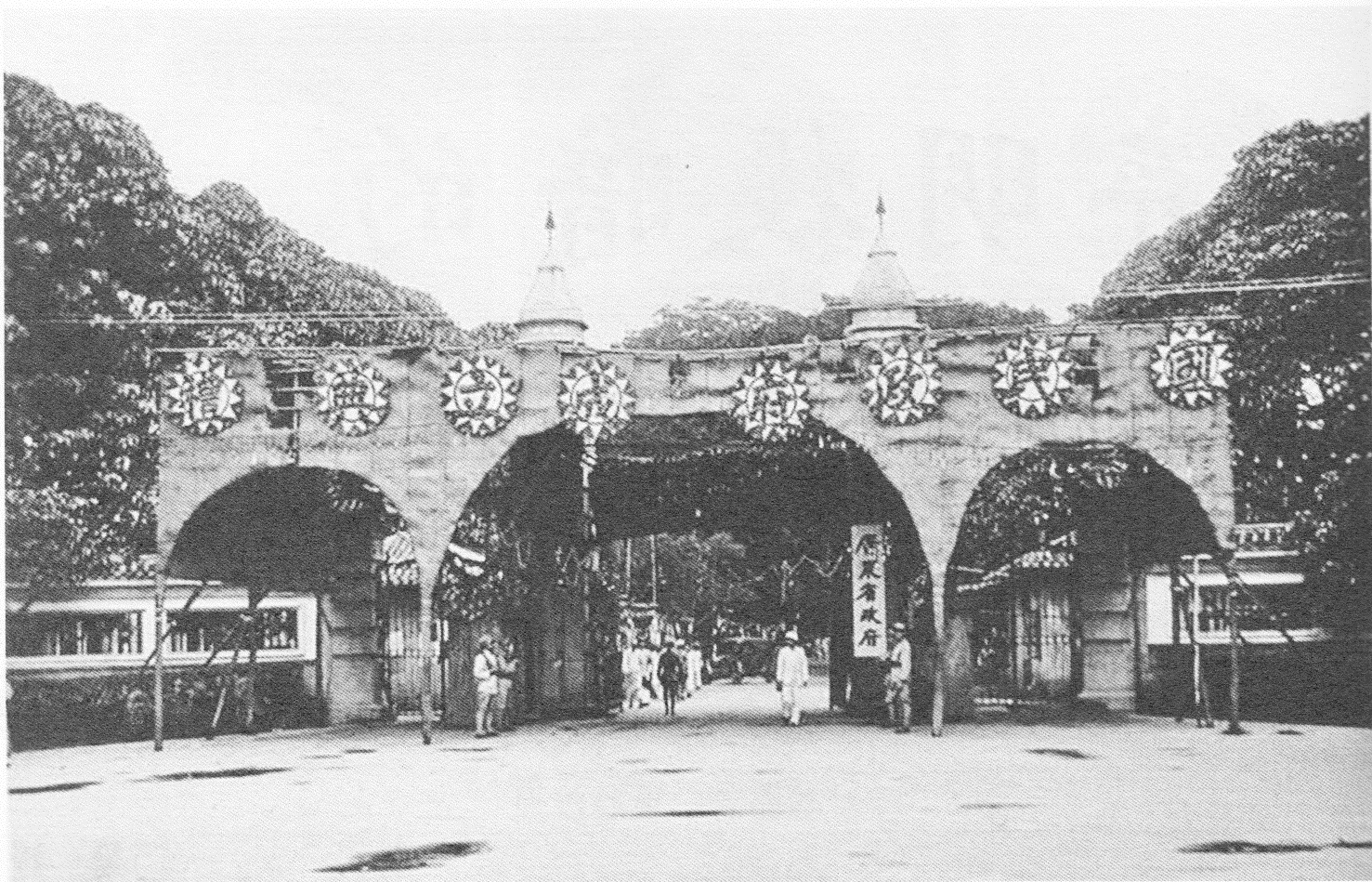 The Nationalist Government of the Republic of China in Canton 1925.